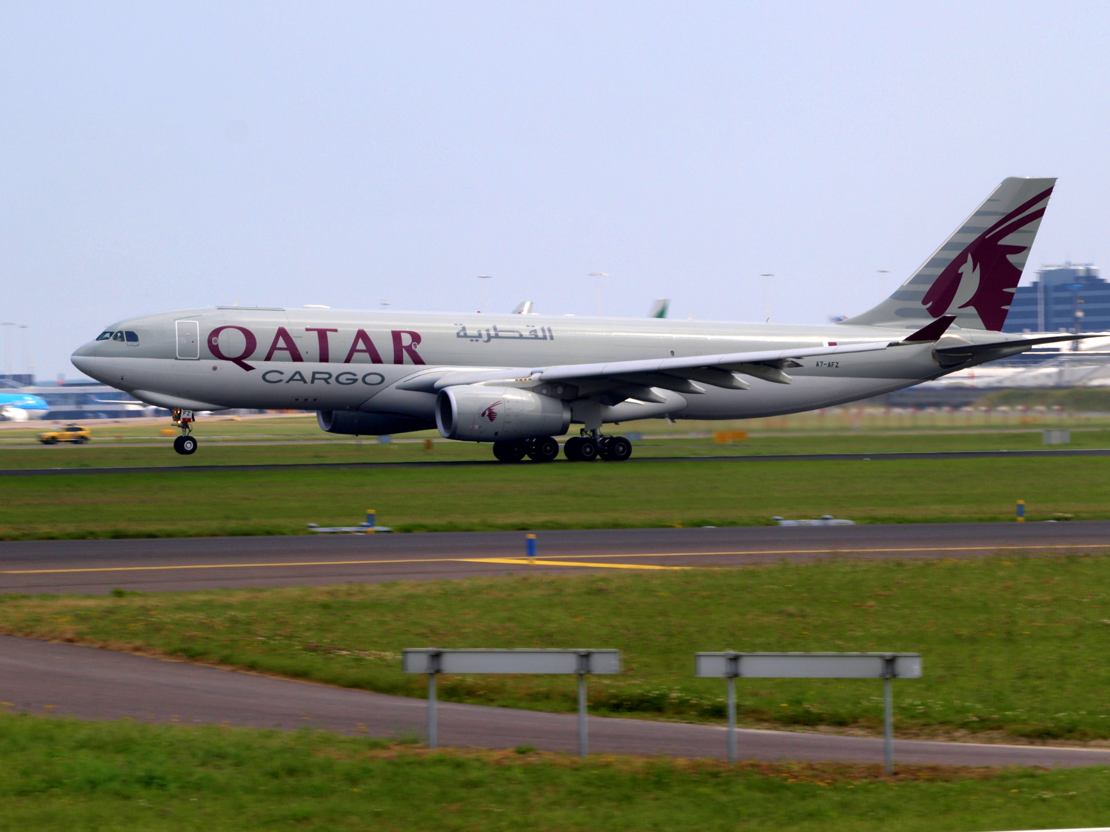 Photographed at Amsterdam airport Schiphol, the Netherlands.